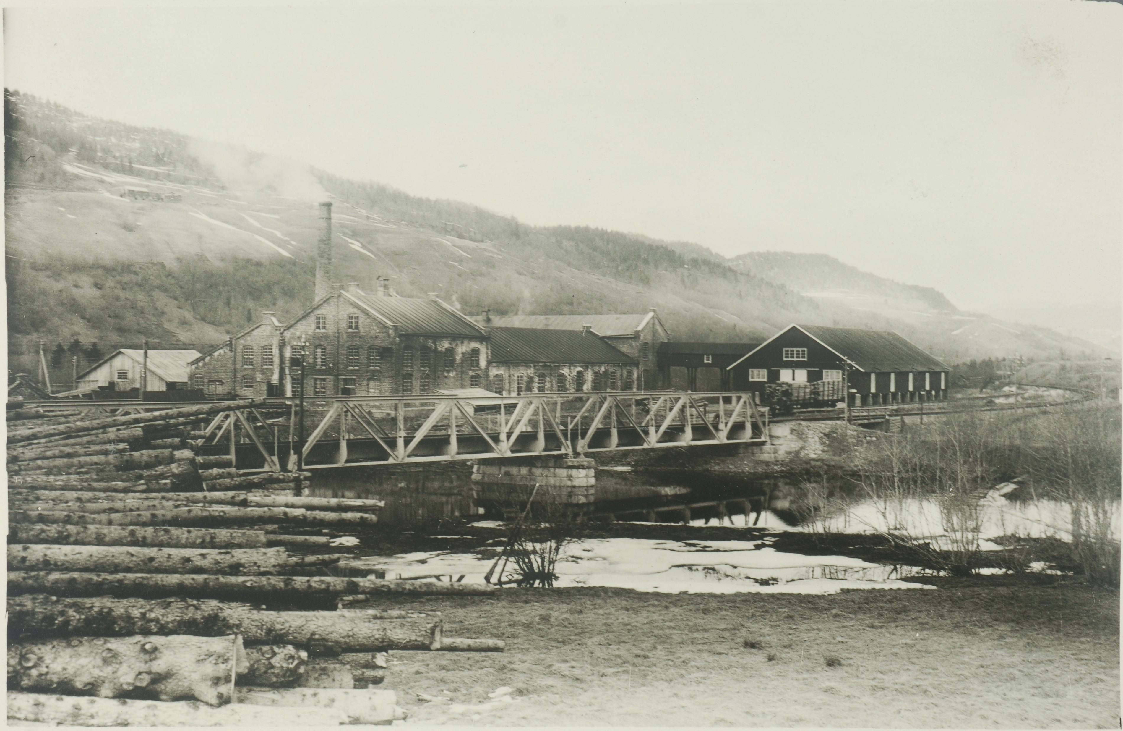 Lundemo bruk (sawmill) in Lundamo, Melhus, Norway. The railway bridge over Sokna river, a tributary of Gaula river.